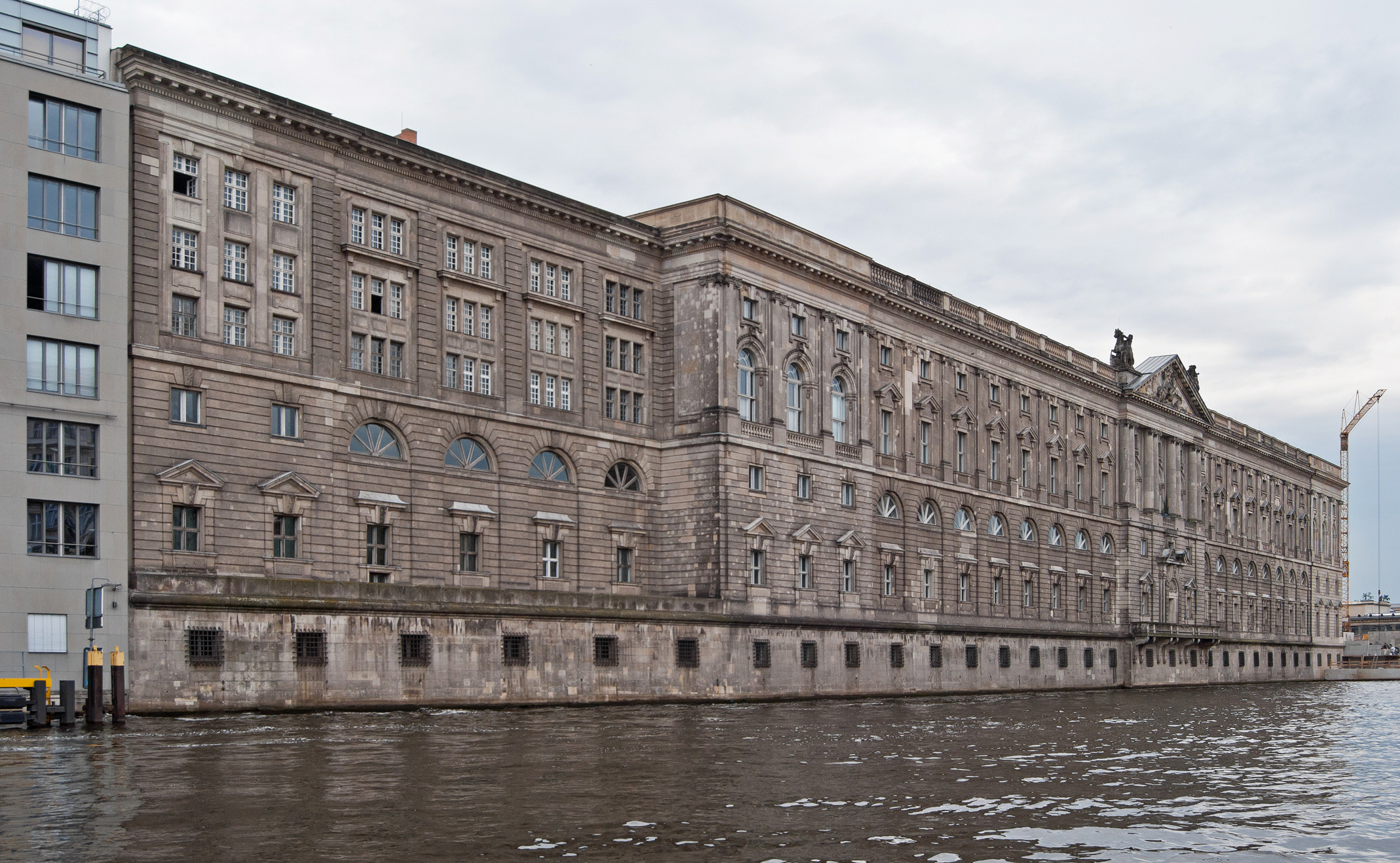 Berlin (Germany) – Neuer Marstall – Spree River side This photograph was taken with a Nikon D3000